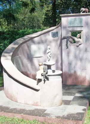 Sepulcro de María Izquierdo en la Rotonda de las Personas Ilustres de la Ciudad de México.